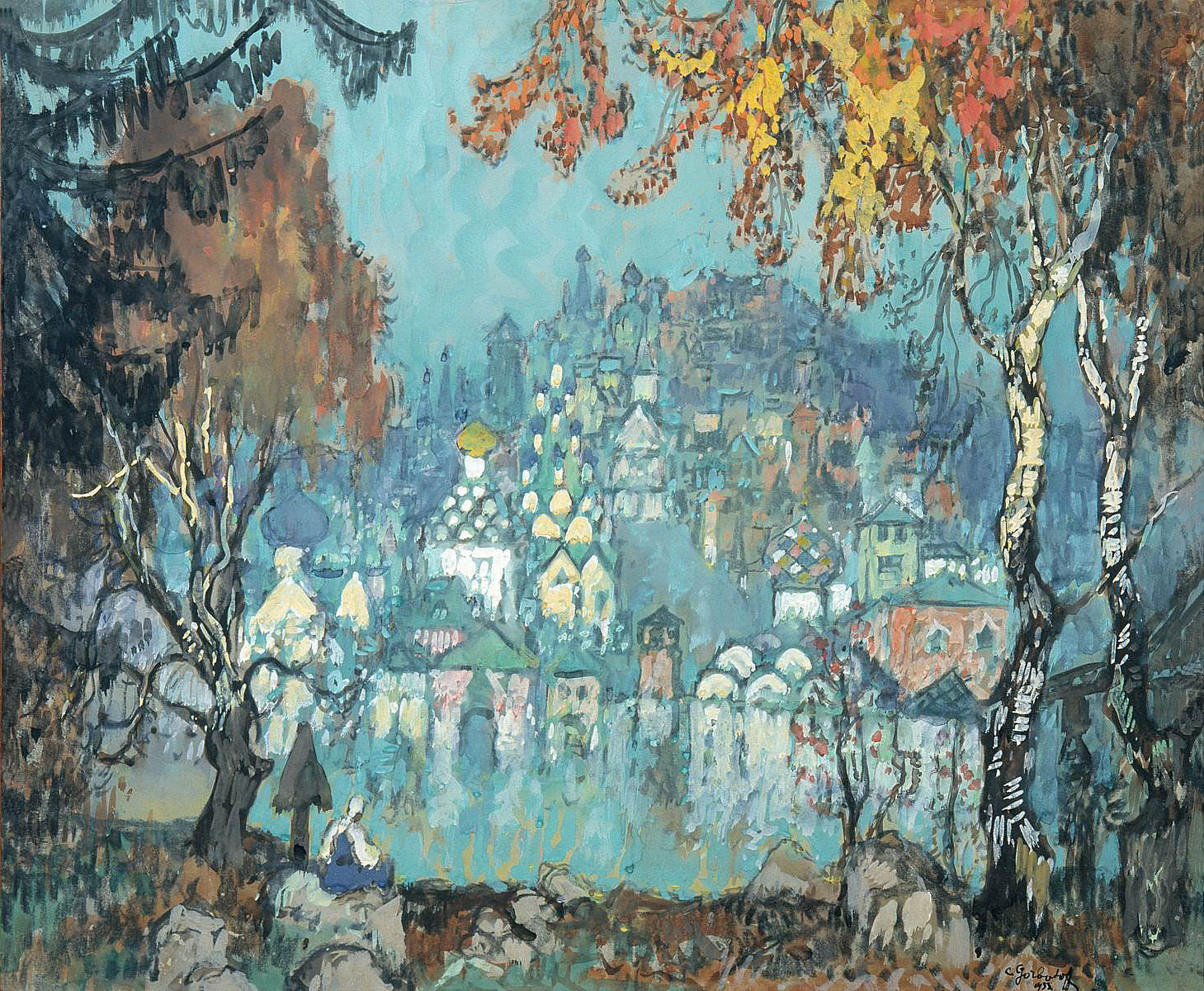 Konstantin Gorbatov The Drown Town" 1933